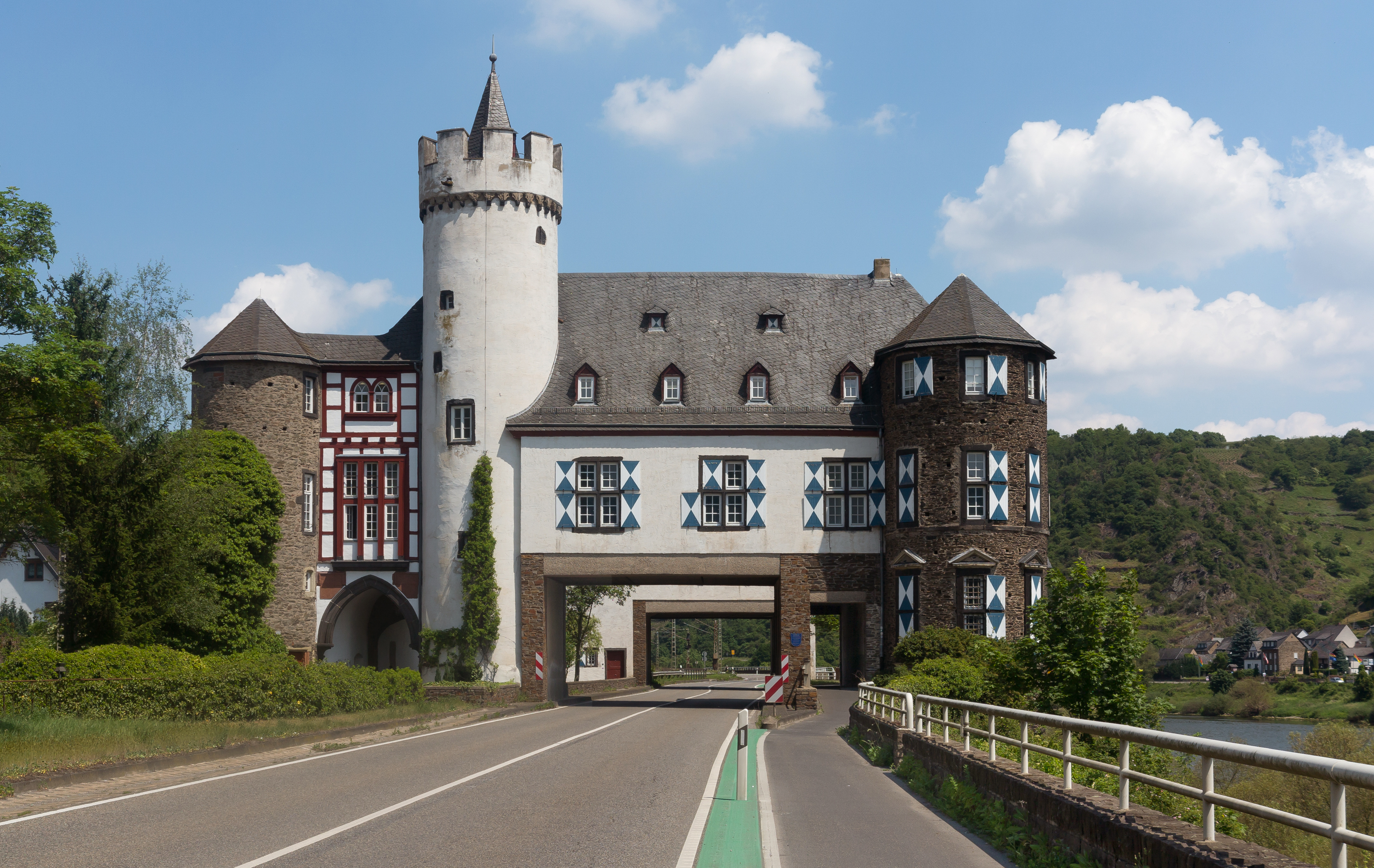 Gondorf, castle: der Oberburg